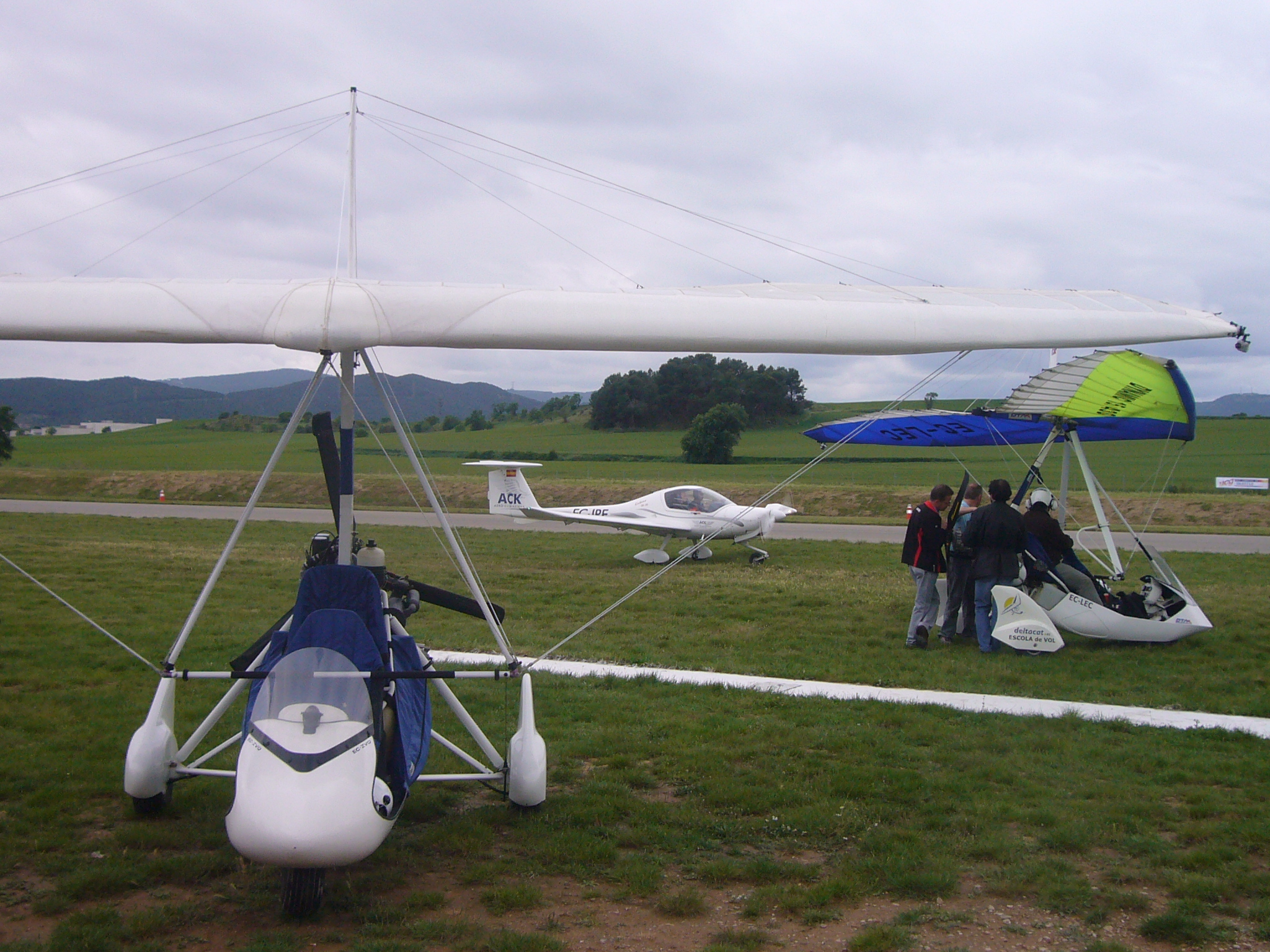 Aerosport airshow 2011. Small airplane at the center, and 2 ultralights. The one at the right side is a DeltaTrike, from Deltacat.es (ULM aviation)